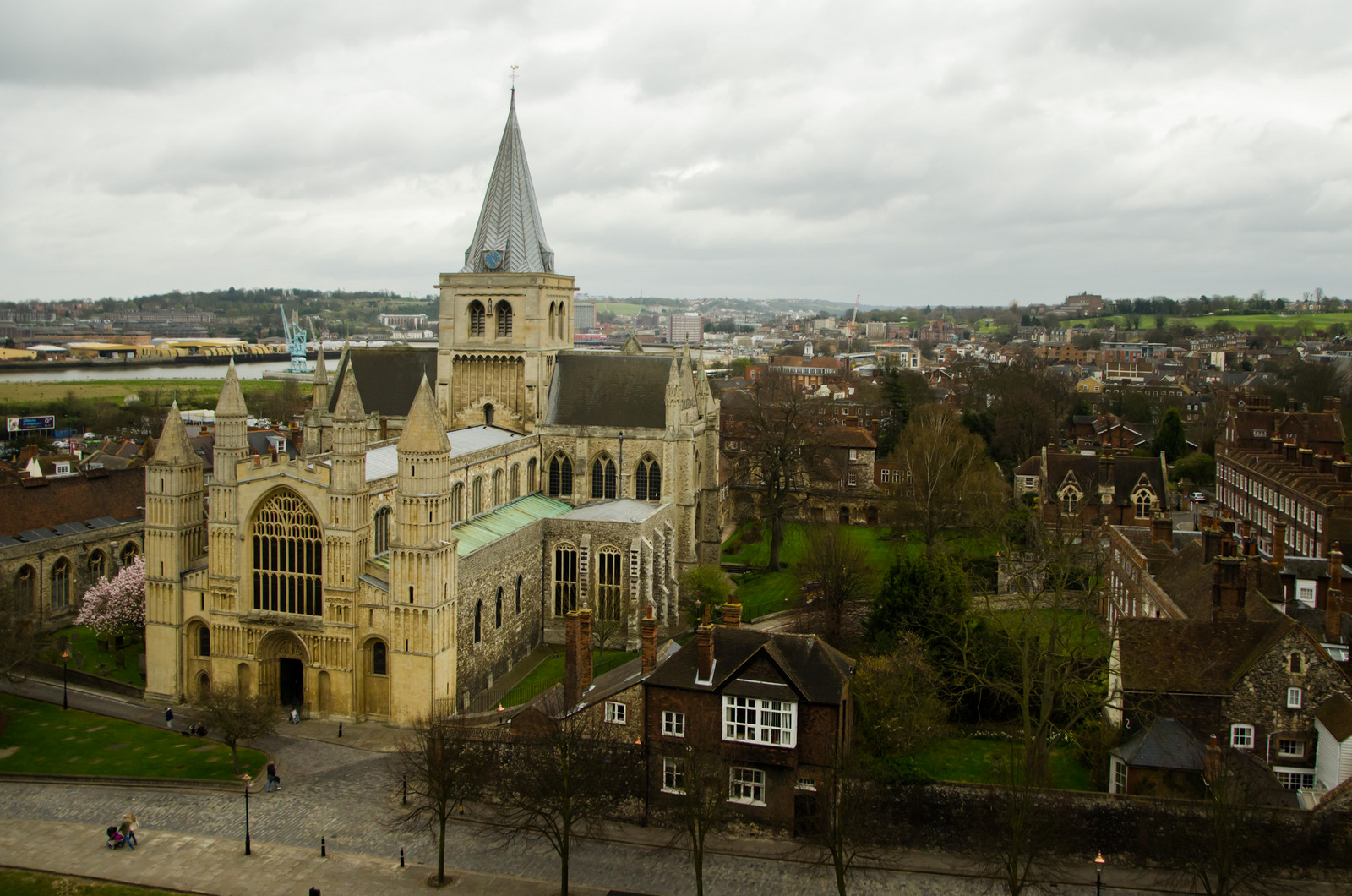 Rochester Cathedral